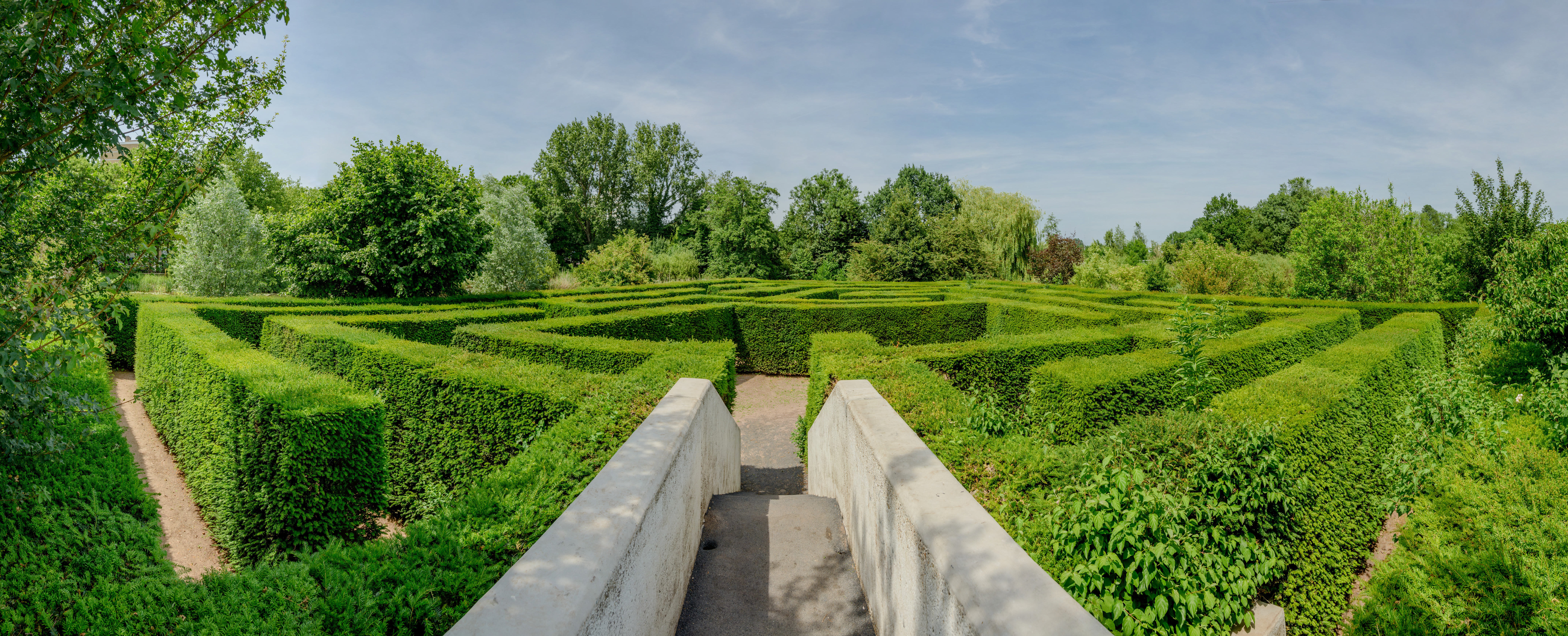 Amstelpark Labyrinth